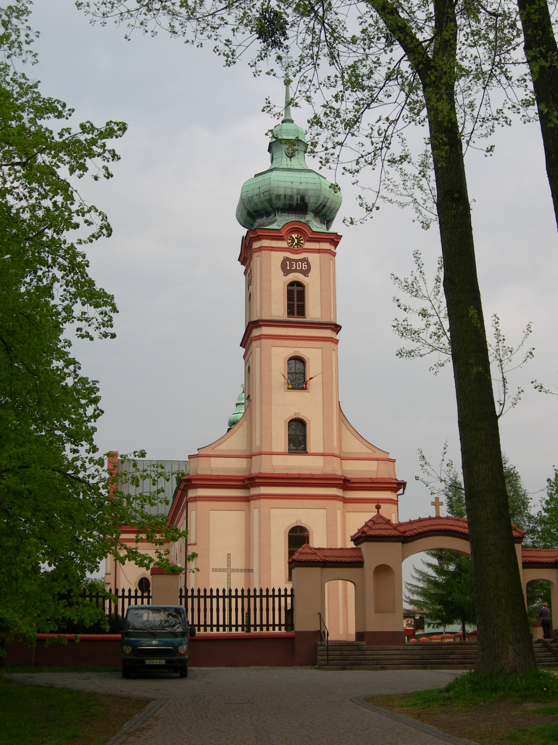 Kościół parafialny pw. św. Jerzego w Dębieńsku. 2006